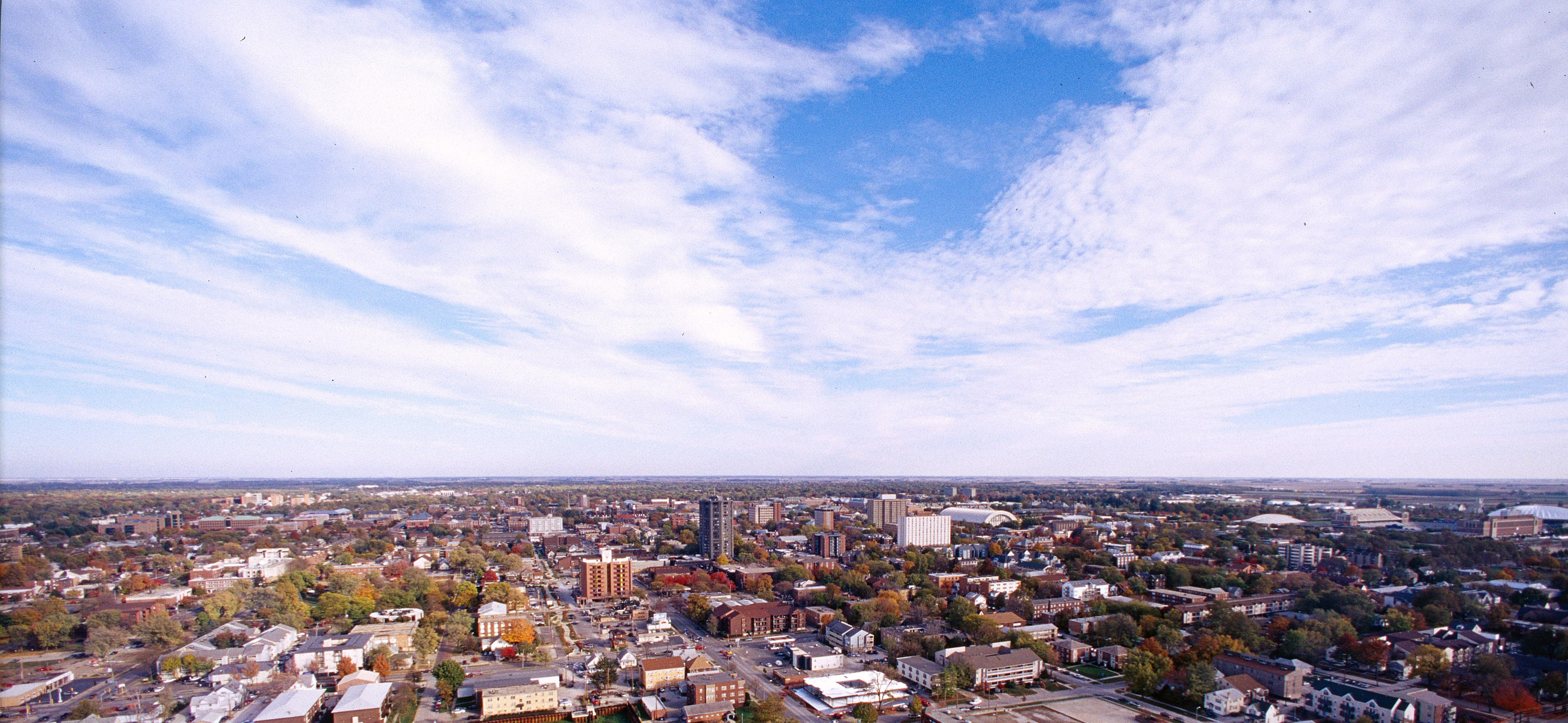 Photo by Peter Folk taken from a radio tower near Neil St. and Springfield Ave., 2004.